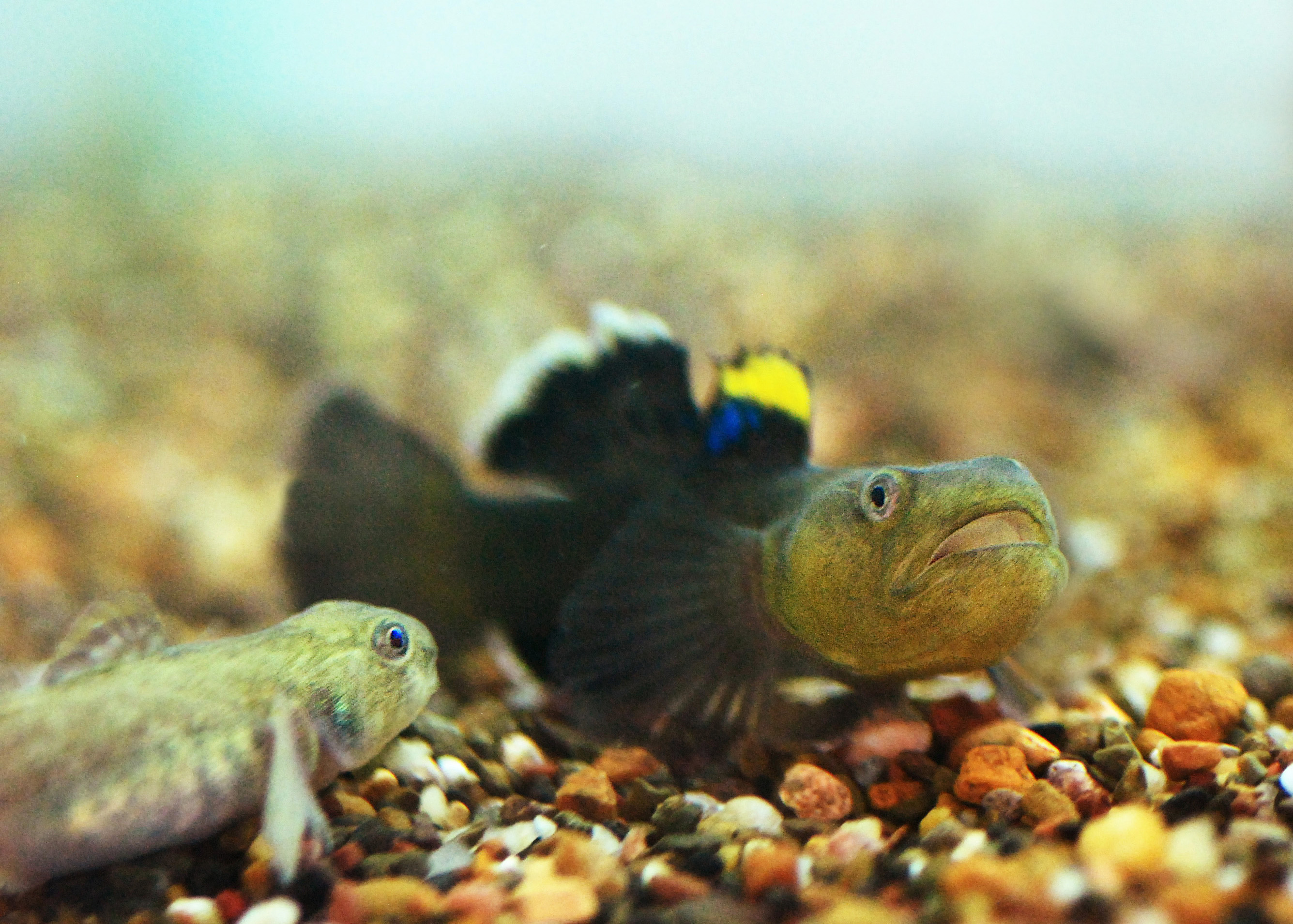 Male desert goby (Chlamydogobius eremius) courting a female